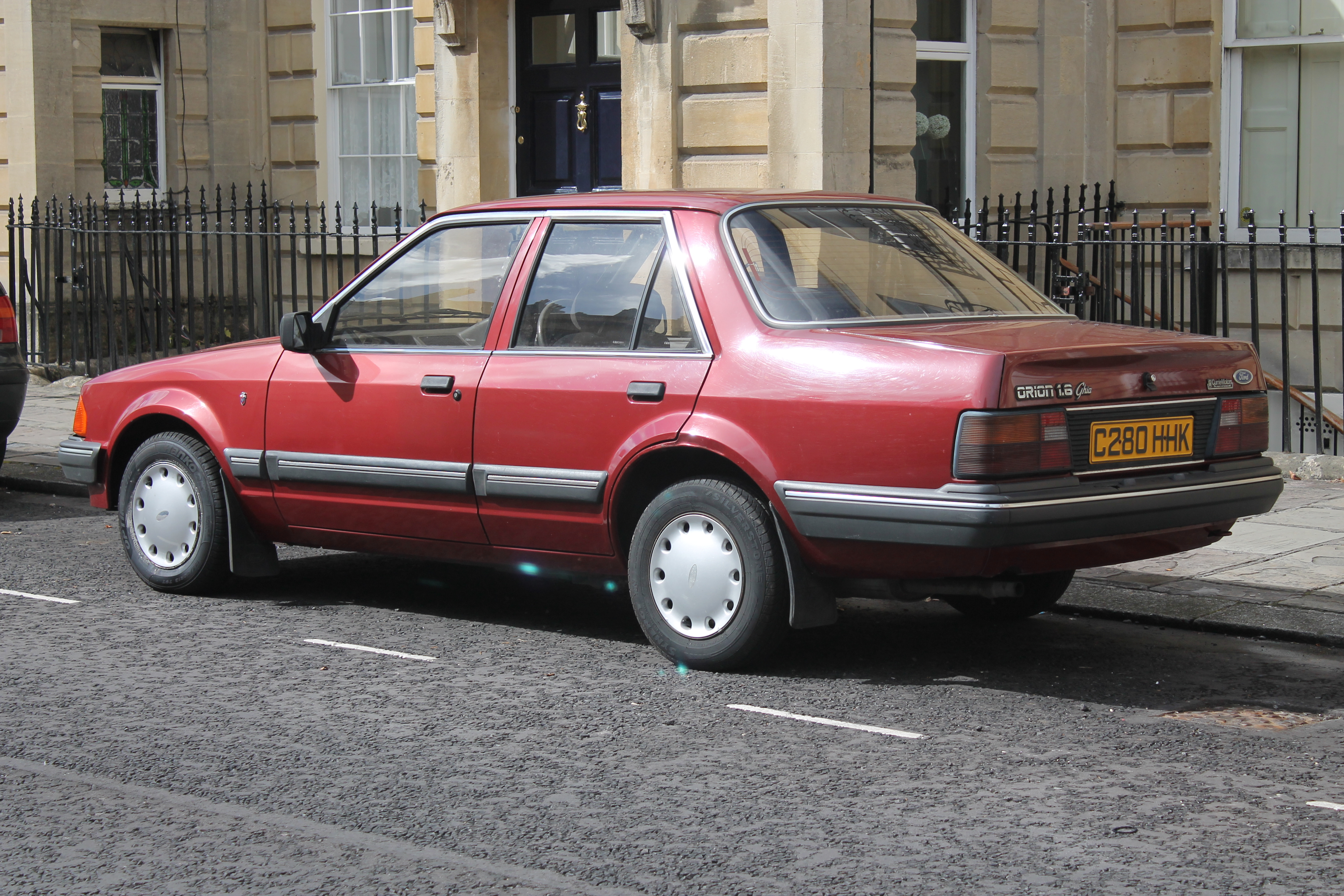 Pleased to spot this rather neat and tidy looking vehicle parked on this wealthy street. This car's licence is due to expire, but I expect it'll be renewed. Used to be common, but now not so much... I like these though. By the way, those blue spots are something on my camera. About time I cleaned my lens!